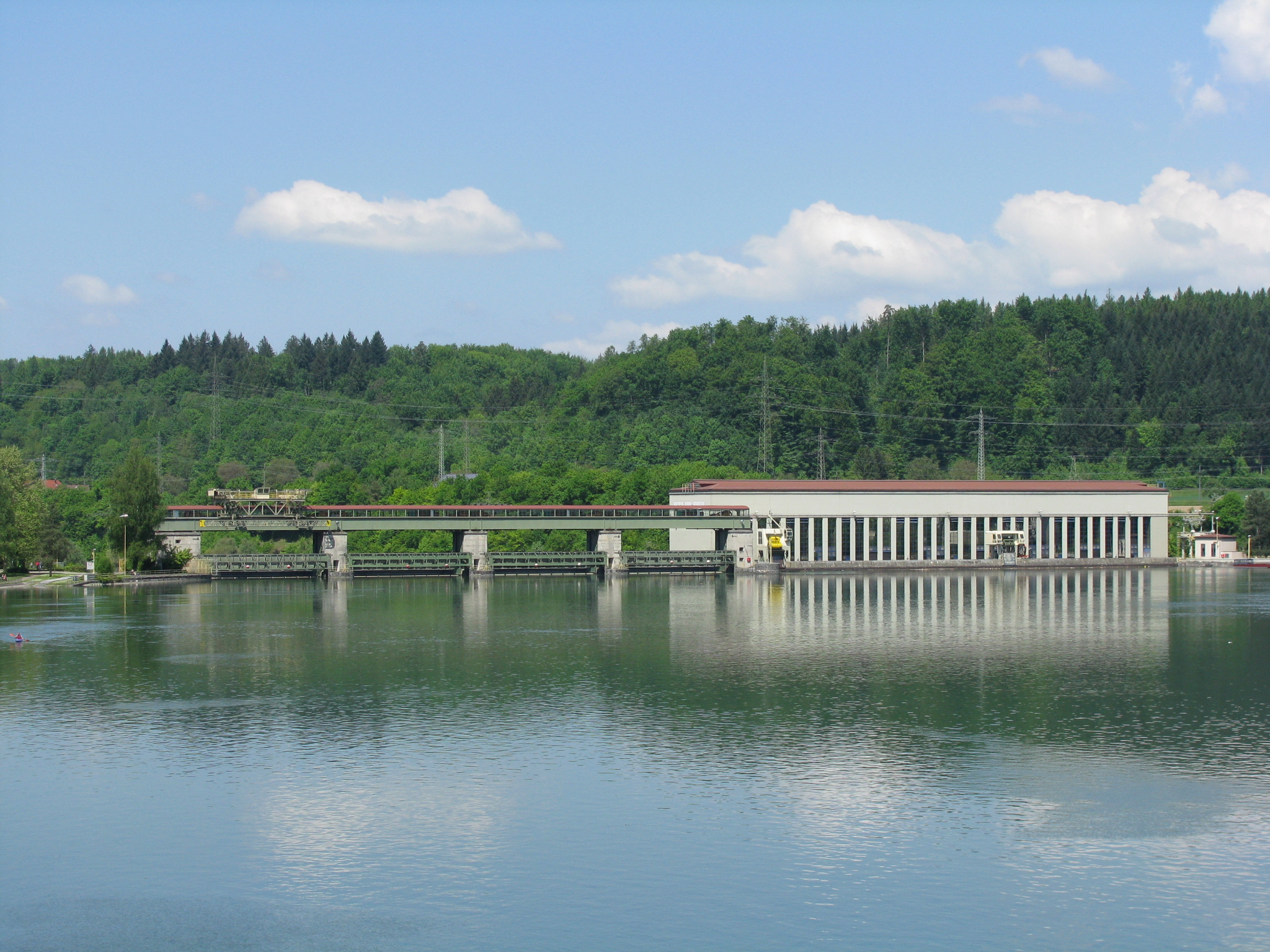 power plant Ryburg-Schwörstadt at Rhine